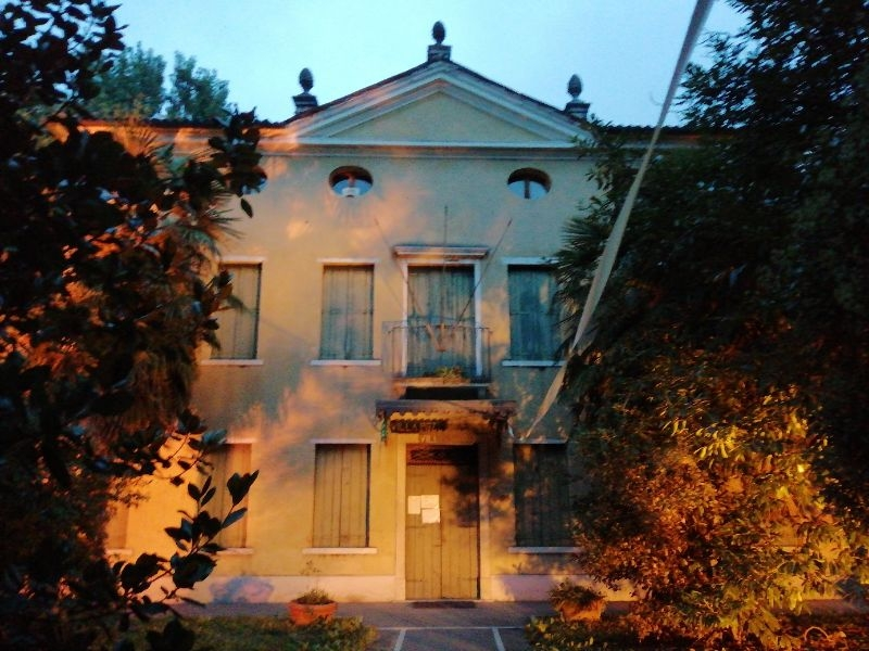 Front view of Villa Pozzi in Mestre